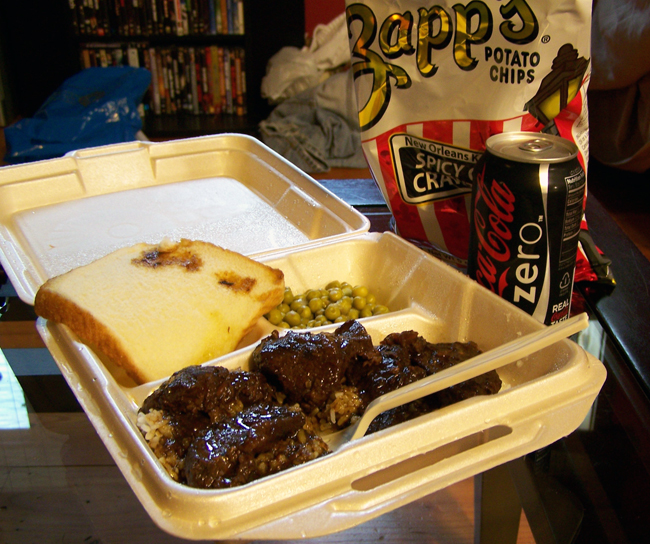 A plate lunch of smothered steak and gravy served over boiled white rice. Purchased from Garys Grocery in Lafayette, Louisiana, along with a bag of Spicy Cajun Crawtators potato chips.